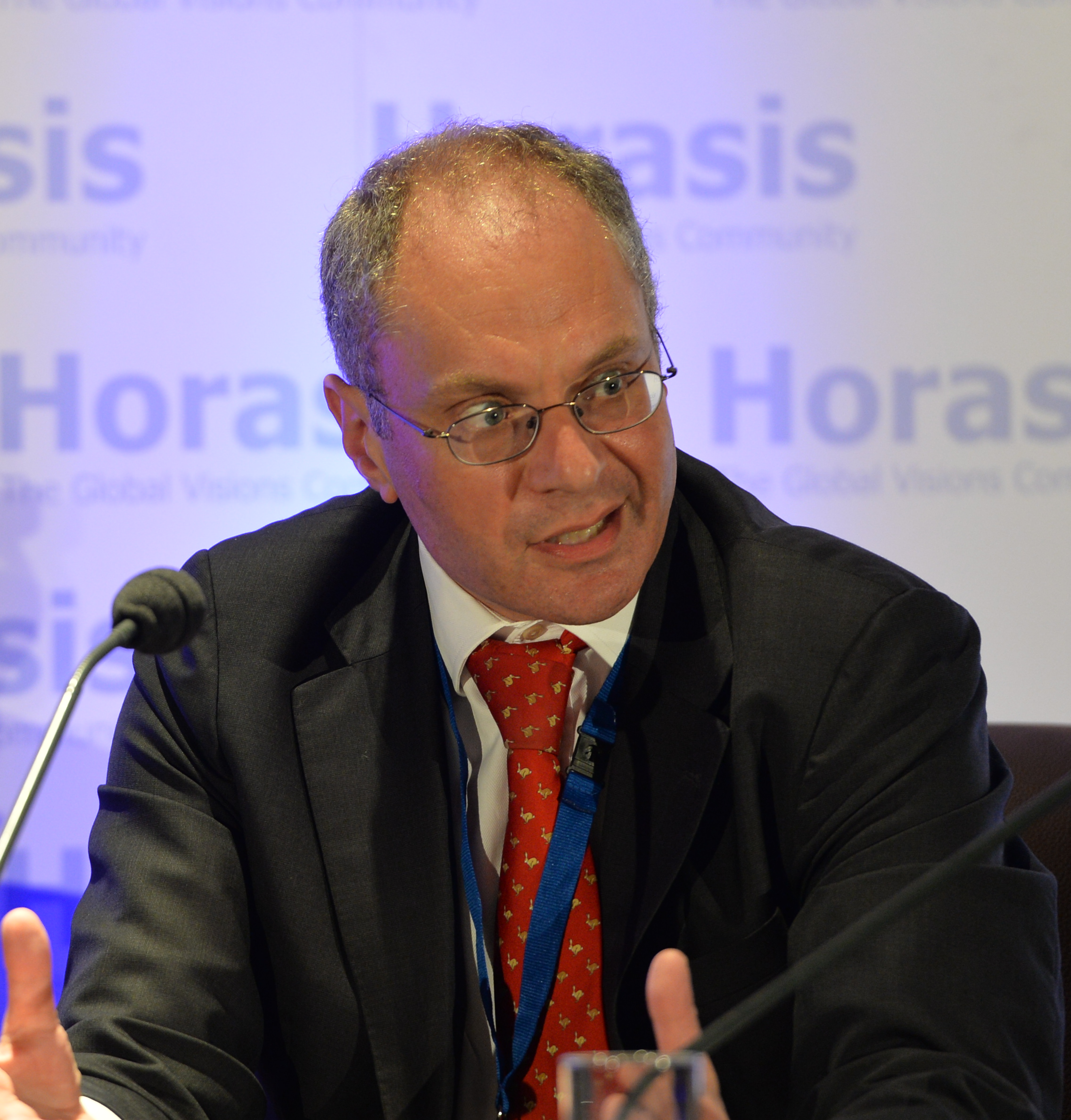 David Landsman, Director, Tata Limited, United Kingdom, making a point on globalization at the Horasis Global India Business Meeting, Liverpool, 22-23 June